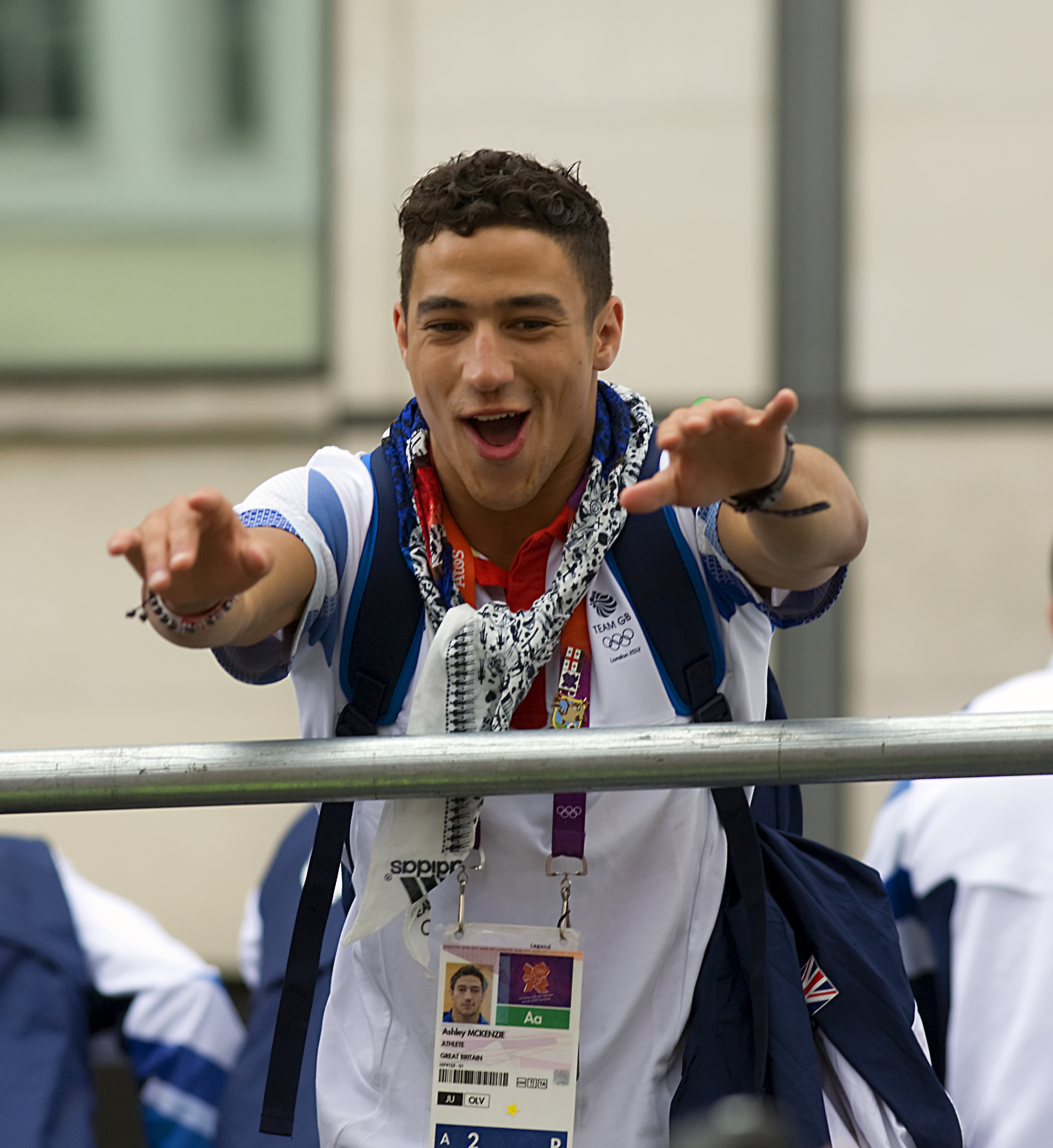 London 2012 Olympic & Paralympic Games Victory Parade, 10th September